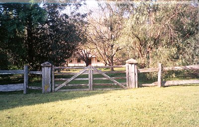 Mountain View, Richmond